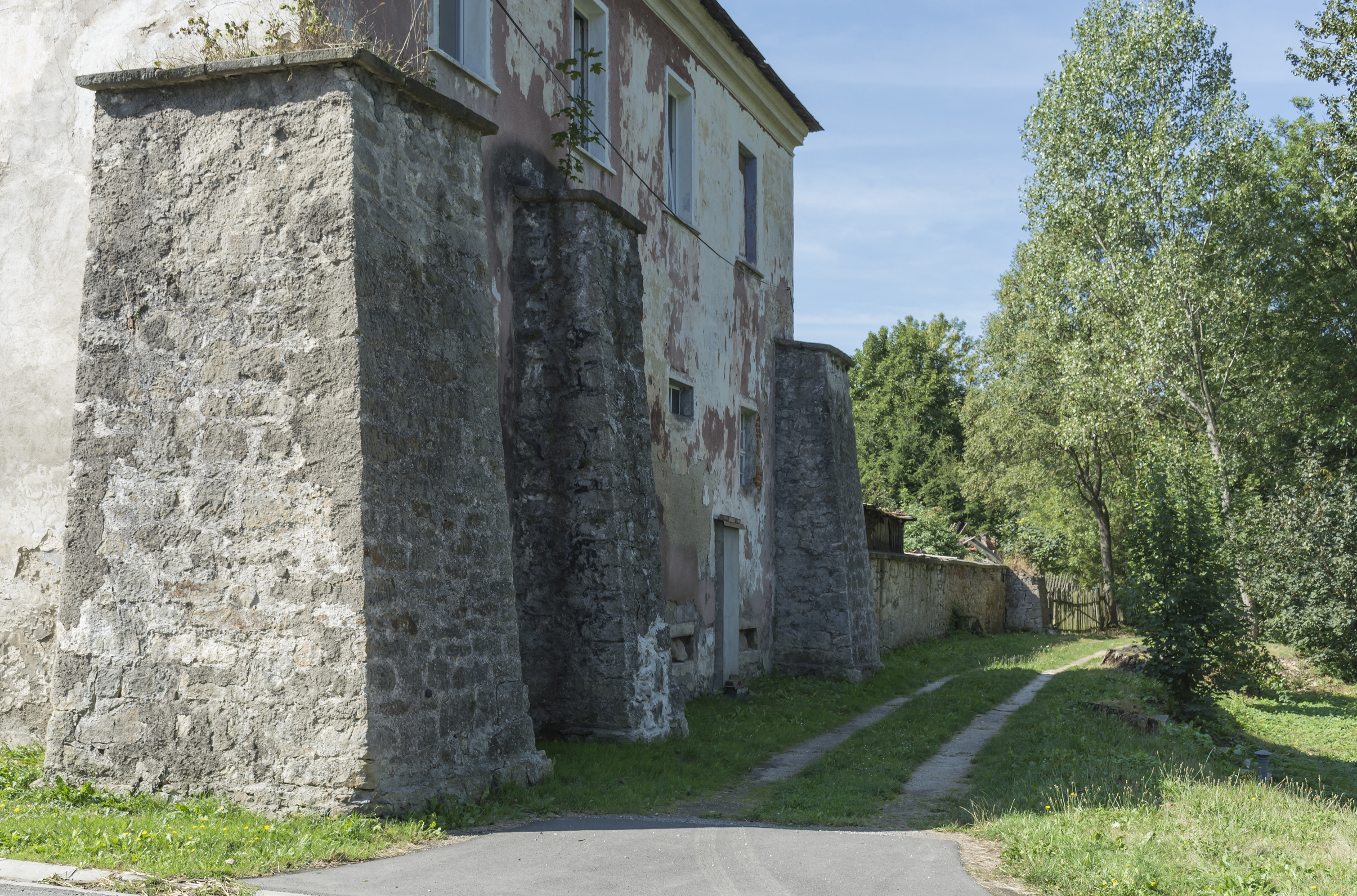 Lower Manor in Stara Łomnica